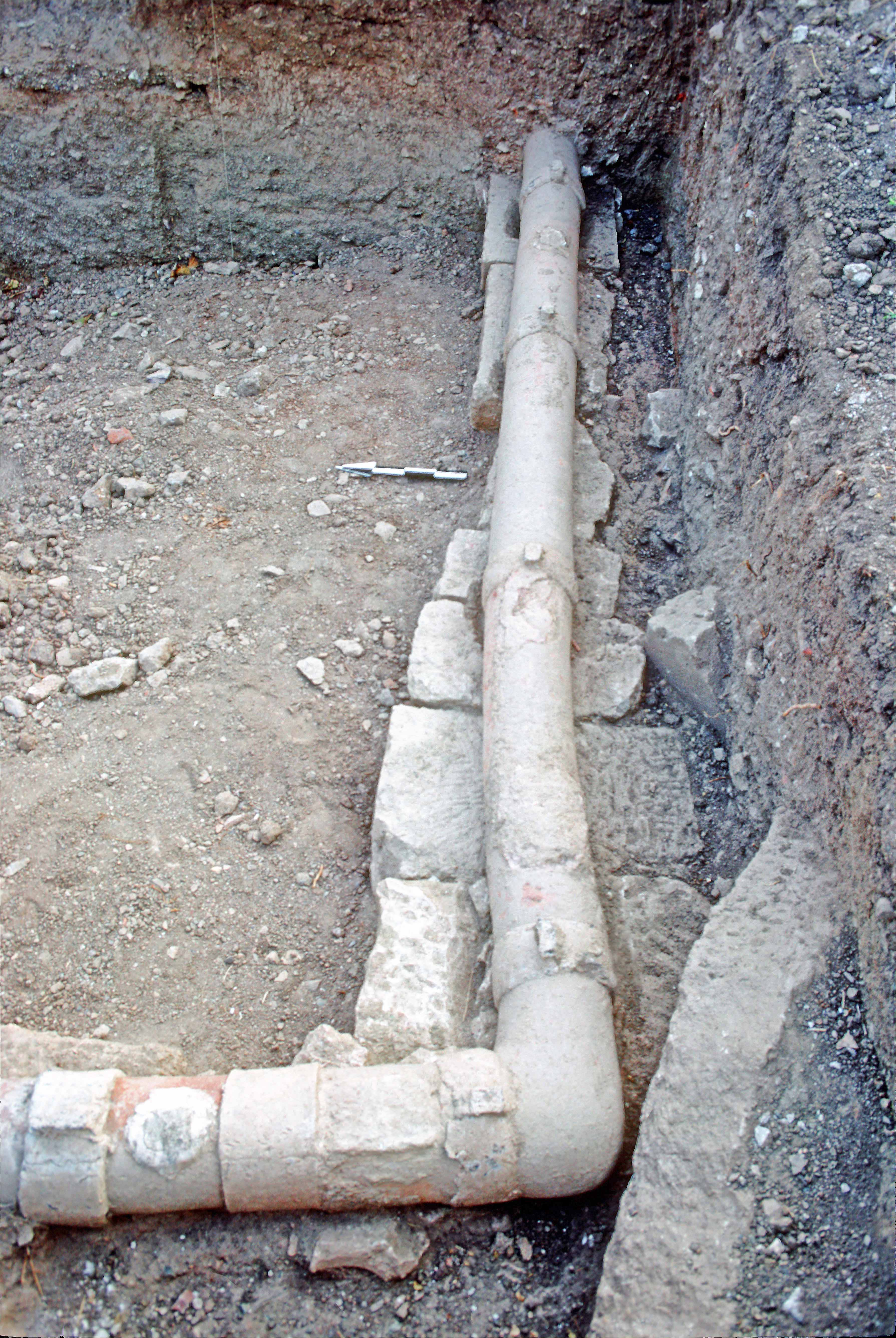 Eretria. Terra-cotta piping with his elbow.